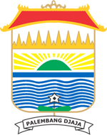 Coat of Arms of Indonesian city of Palembang.